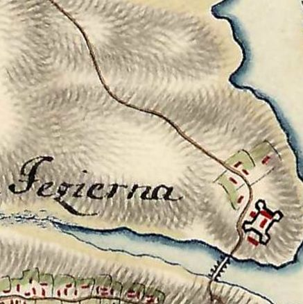 Jezierna Schanze 1787